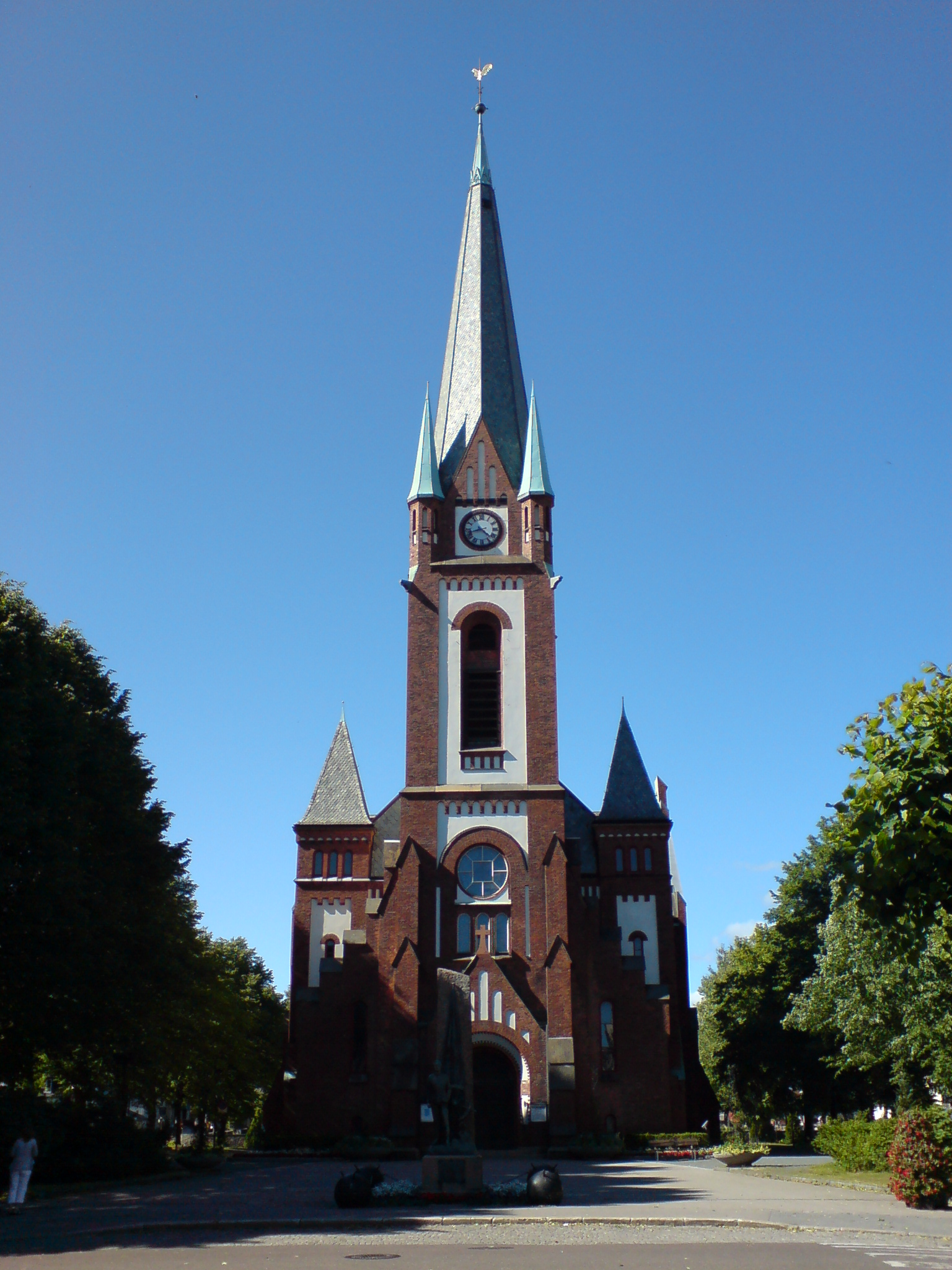 Sandefjord Church in Vestfold, Norway